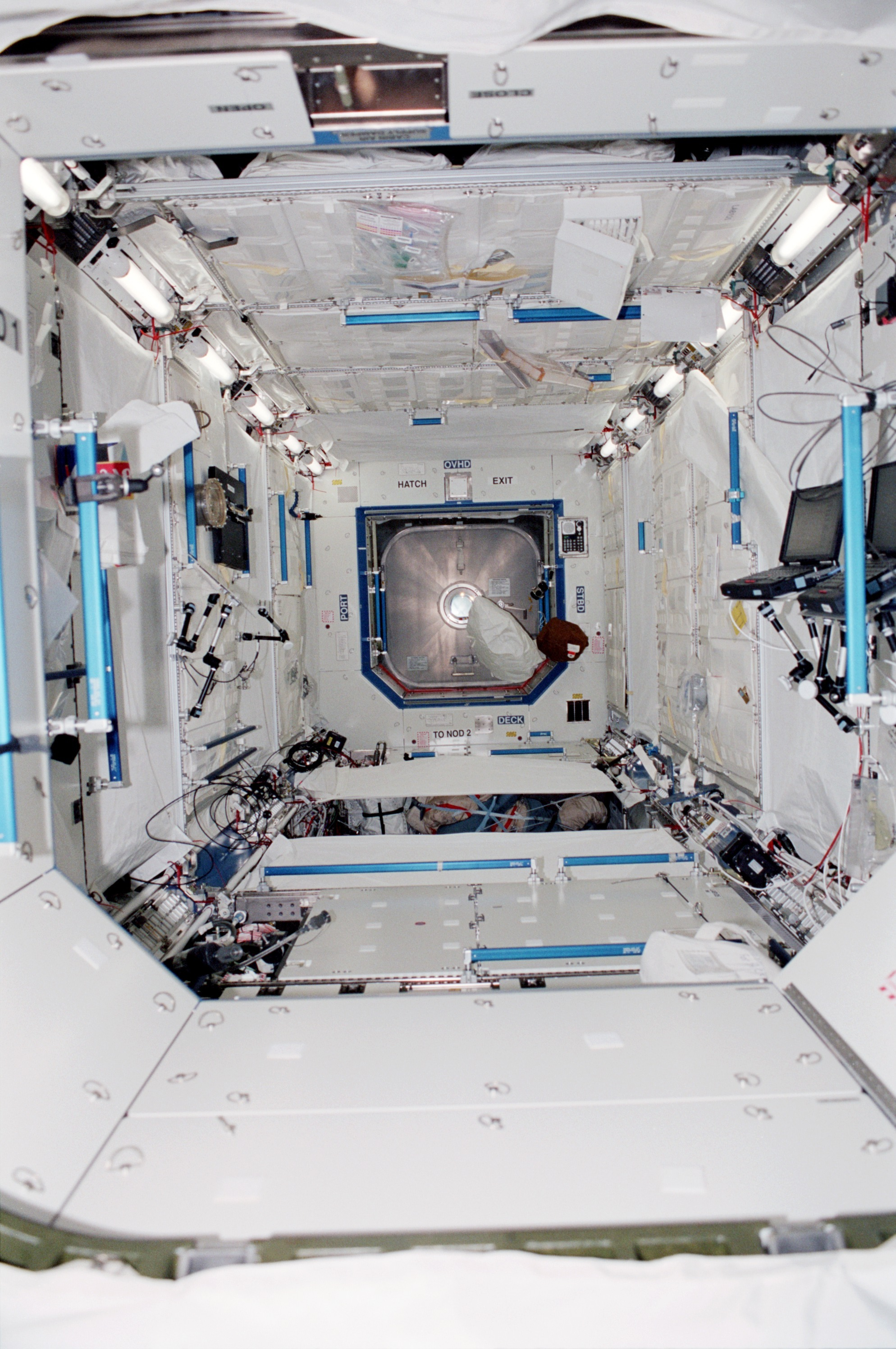 An overall shot of the newly attached Destiny laboratory was recorded with a 35mm camera during the early occupancy by astronauts and cosmonauts from the Expedition One and STS-98 crews